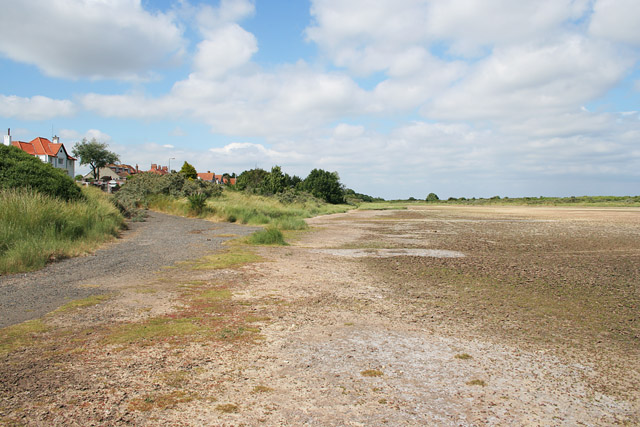 Seacroft near Skegness. These houses are on Seacroft Esplanade but the sea has long gone. All that is left is a dried out salt marsh. The sea is beyond a high ridge of dunes to the right.